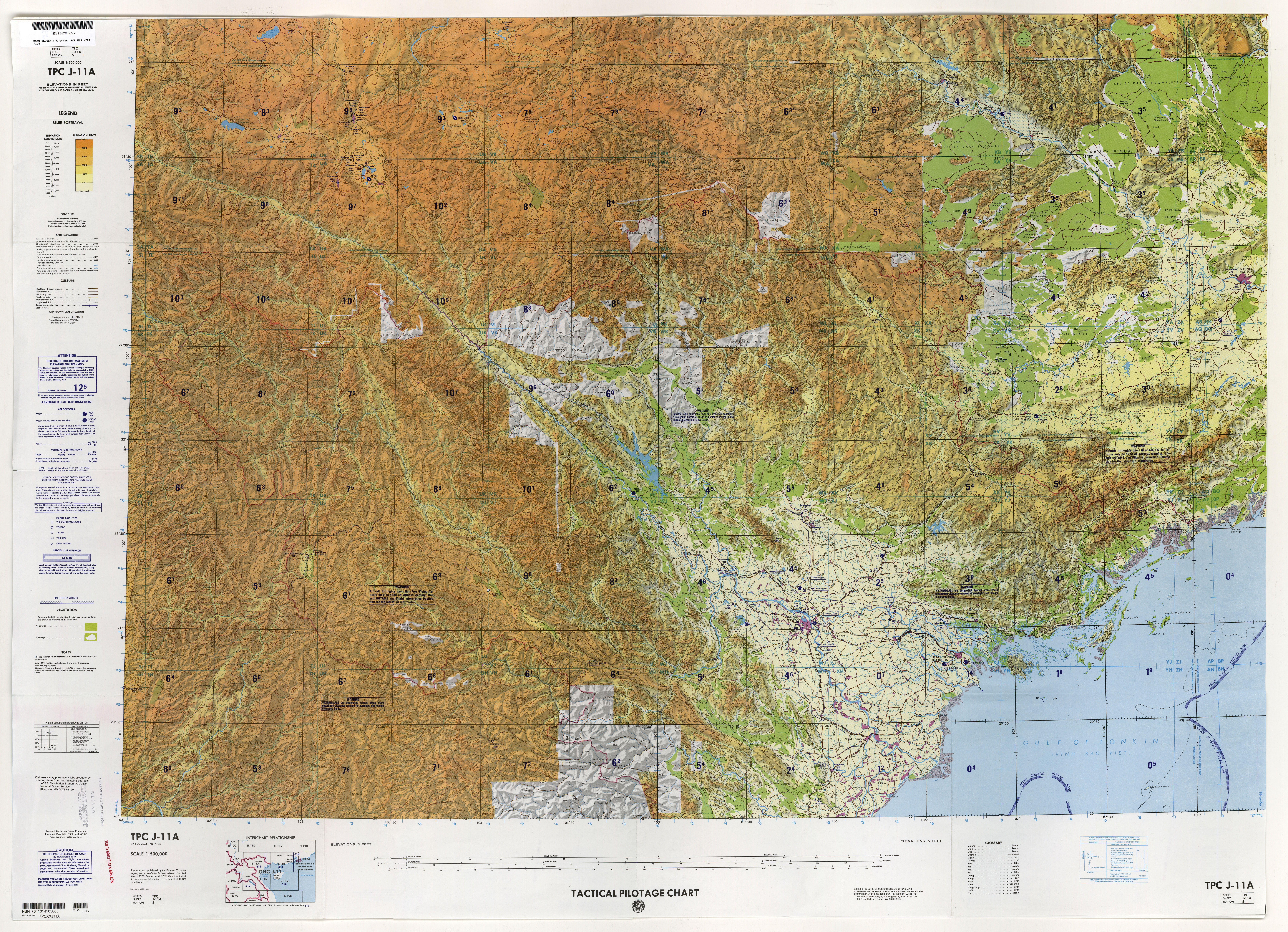 Tactical Pilotage Chart Series - World 1:500,000 Scale